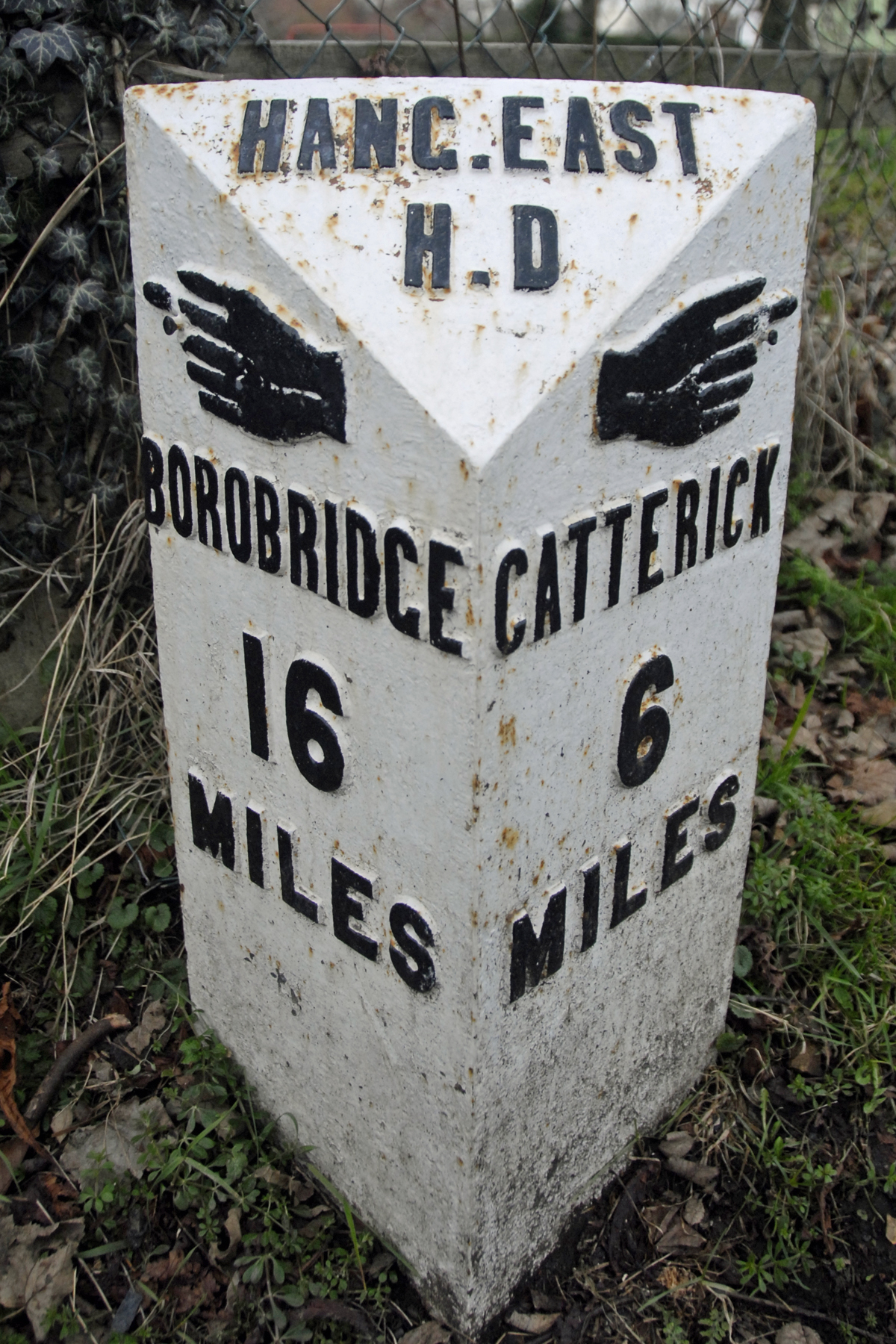 This sign is at the crossroads of the A684 and Leeming Lane (the old course of the Roman Road (the A1). Hang East is the Wapentake in which Leeming Bar resided.